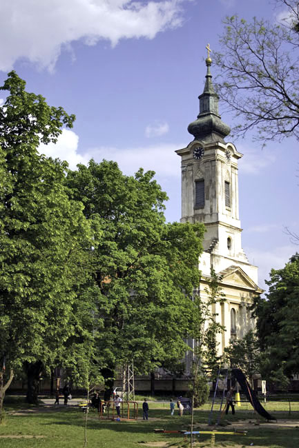 Pravoslavna crkva u Žablju.jpg